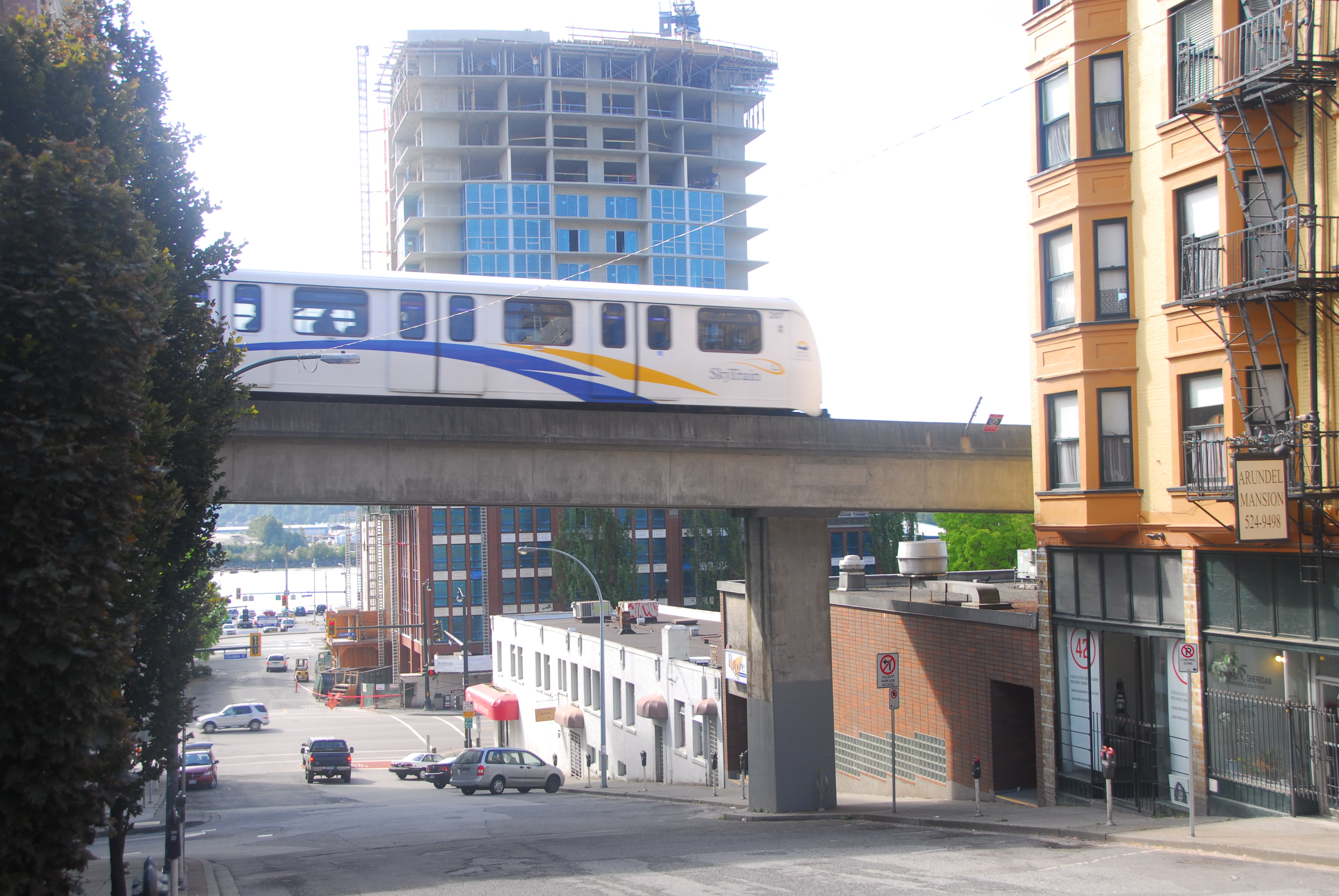 A Vancouver Mark II SkyTrain at an elevated section in Downtown New Westminster, Canada, between New Westminster Station and Columbia Station.